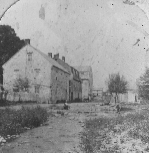 As of 2009, the only remaining building from the original settlement is the stone "Familienhaus" (Family House) on the left.